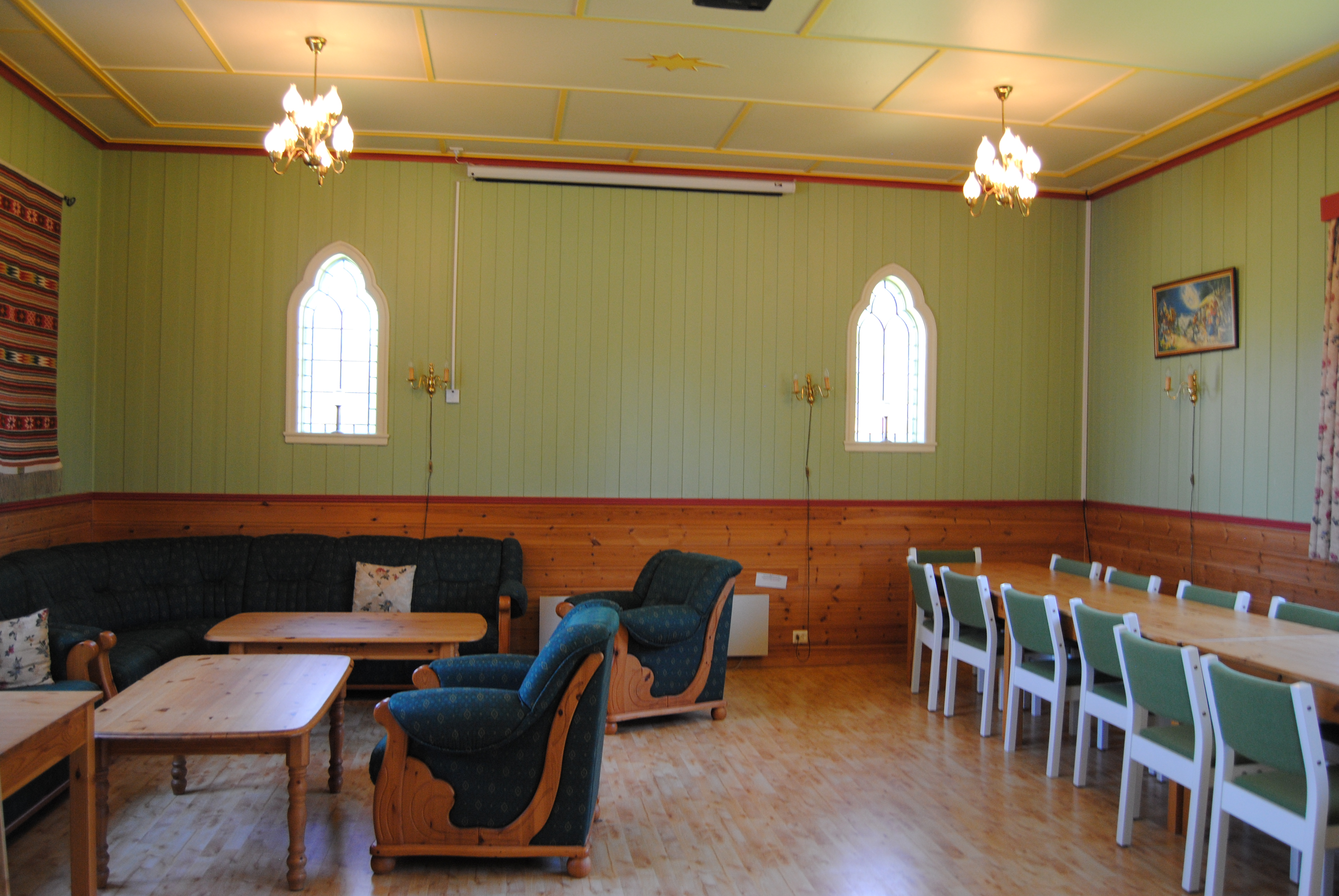 Room for congregational use in Manger church, Norway